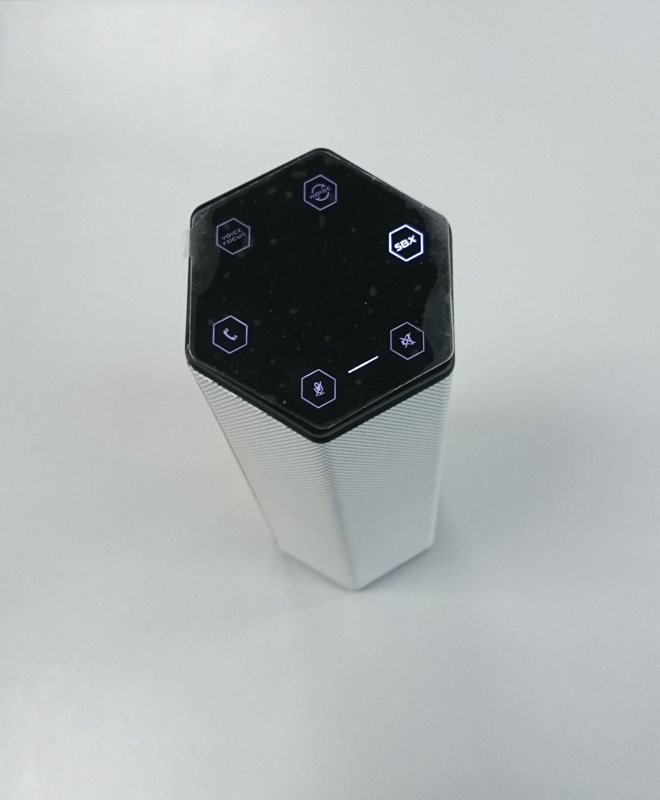 This is a photo of the Sound BlasterAxx AXX 200 I took with my cell phone.